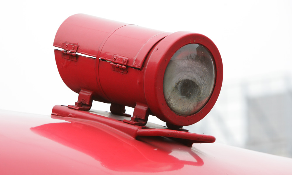 The Front eye (A blind area view scope) of Meitetsu Panorama Car 7000 series EMU ( Mo 7042 ), at Higashi-Okazaki Station.